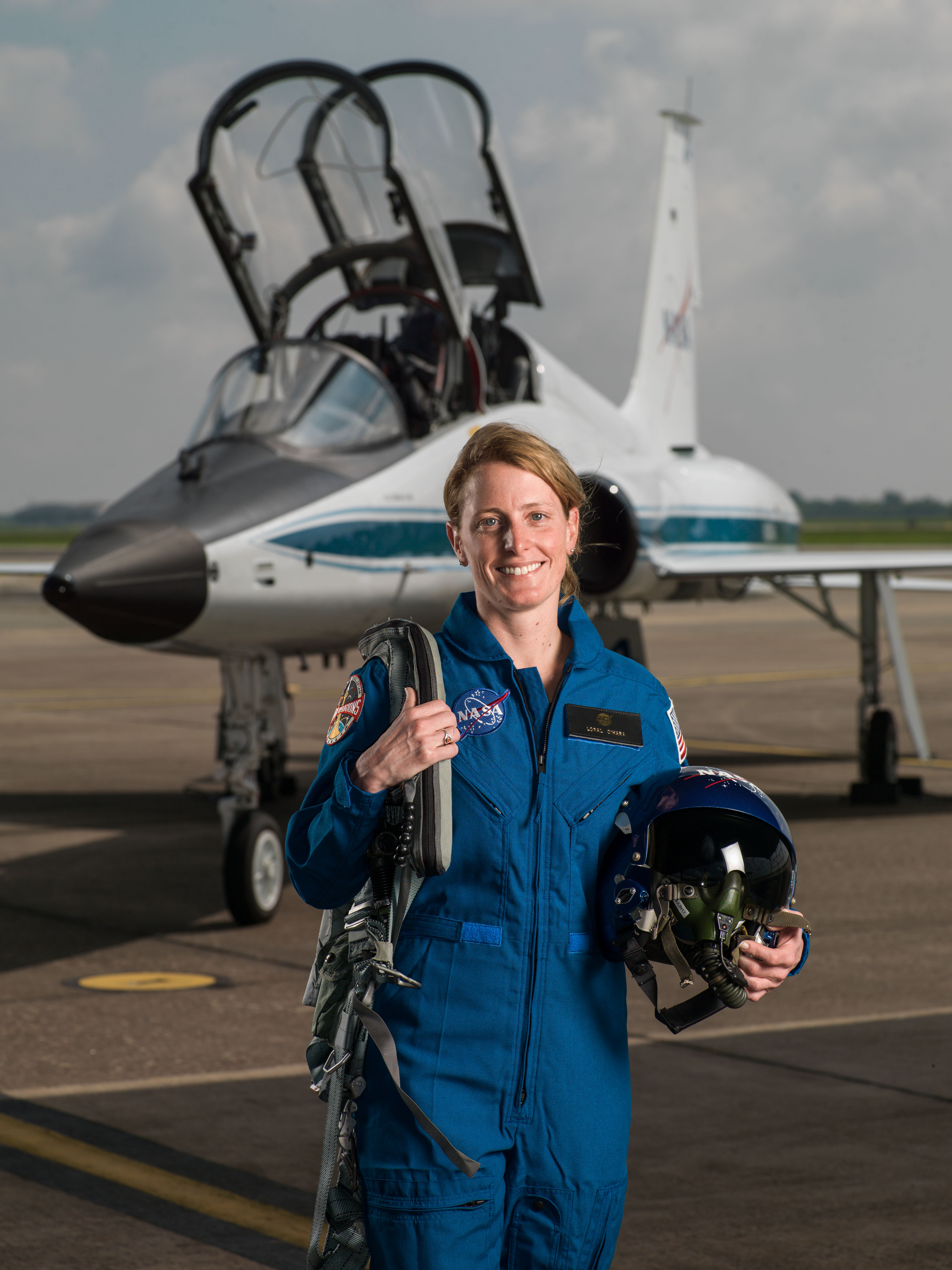 2017 NASA Astronaut Candidate - Loral O'Hara. Photo Date: June 6, 2017. Location: Ellington Field - Hangar 276, Tarmac.